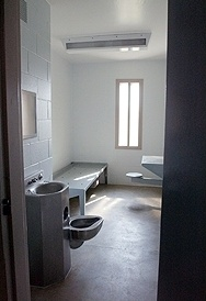 Prison cell, Fort Leavenworth.